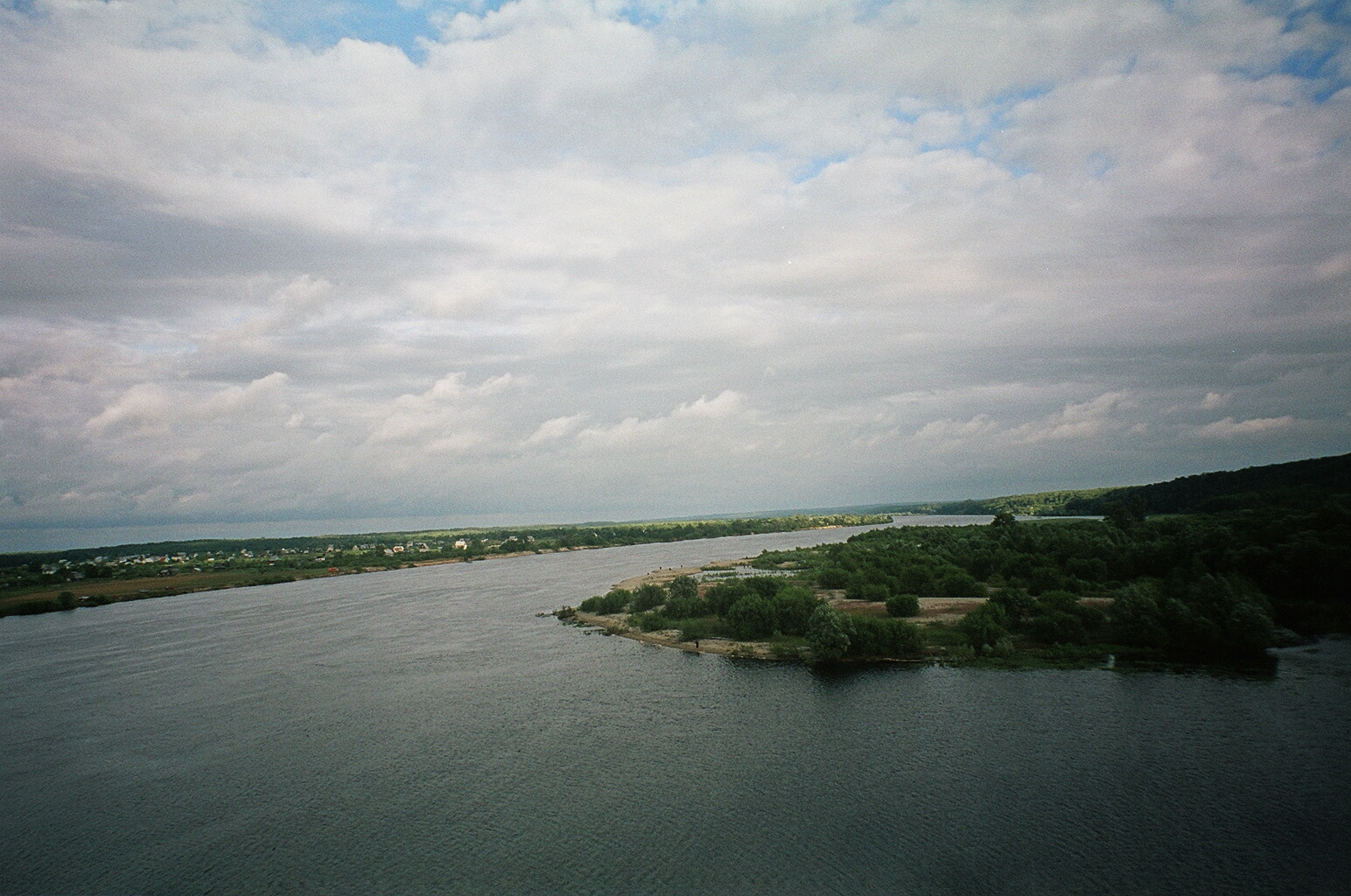 Prypiać River in Mazyr, Belarus